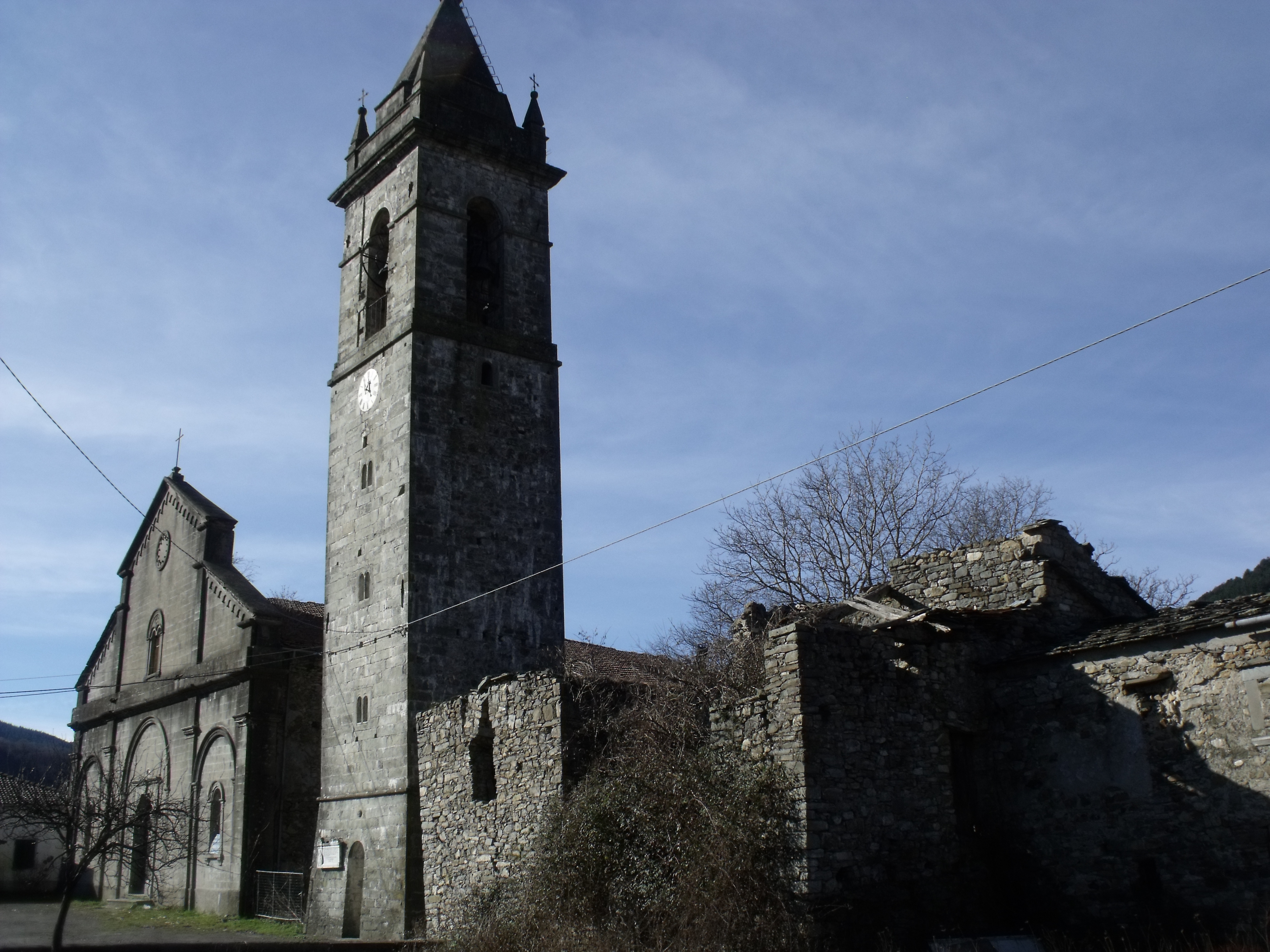 Church of San Lorenzo near Patigno, Comune of Zeri, Lunigiana, Province of Massa-Carrara, Tuscany, Italy